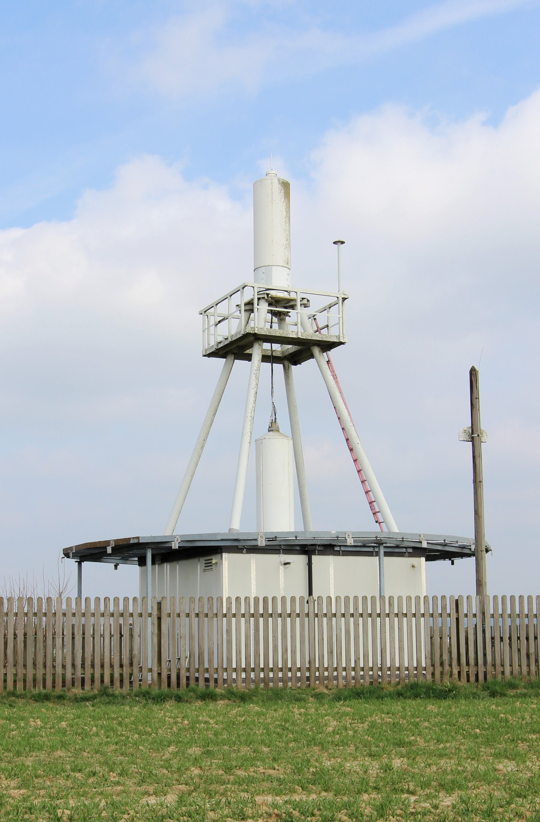 54636 Nattenheim, nearly L 32. A VORTAC is a navigational aid for aircraft pilots consisting of a co-located VHF omnidirectional range (VOR) beacon and a tactical air navigation system (TACAN) beacon. Both types of beacons provide pilots azimuth information, but the VOR system is generally used by civil aircraft and the TACAN system by military aircraft. However, the TACAN distance measuring equipment is also used for civil purposes because civil DME equipment is built to match the military DME specifications. Pic from the year 2018.